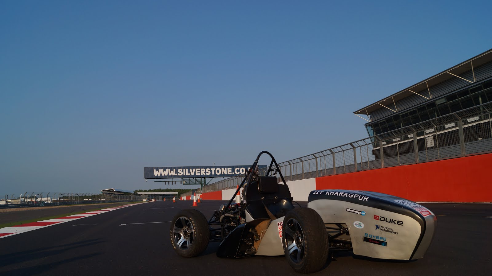 car image